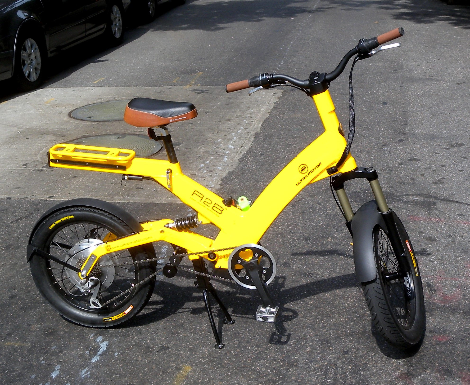 Looking west at a parked A2B Ultramotor electric bike in the East lower 70s on a sunny day.